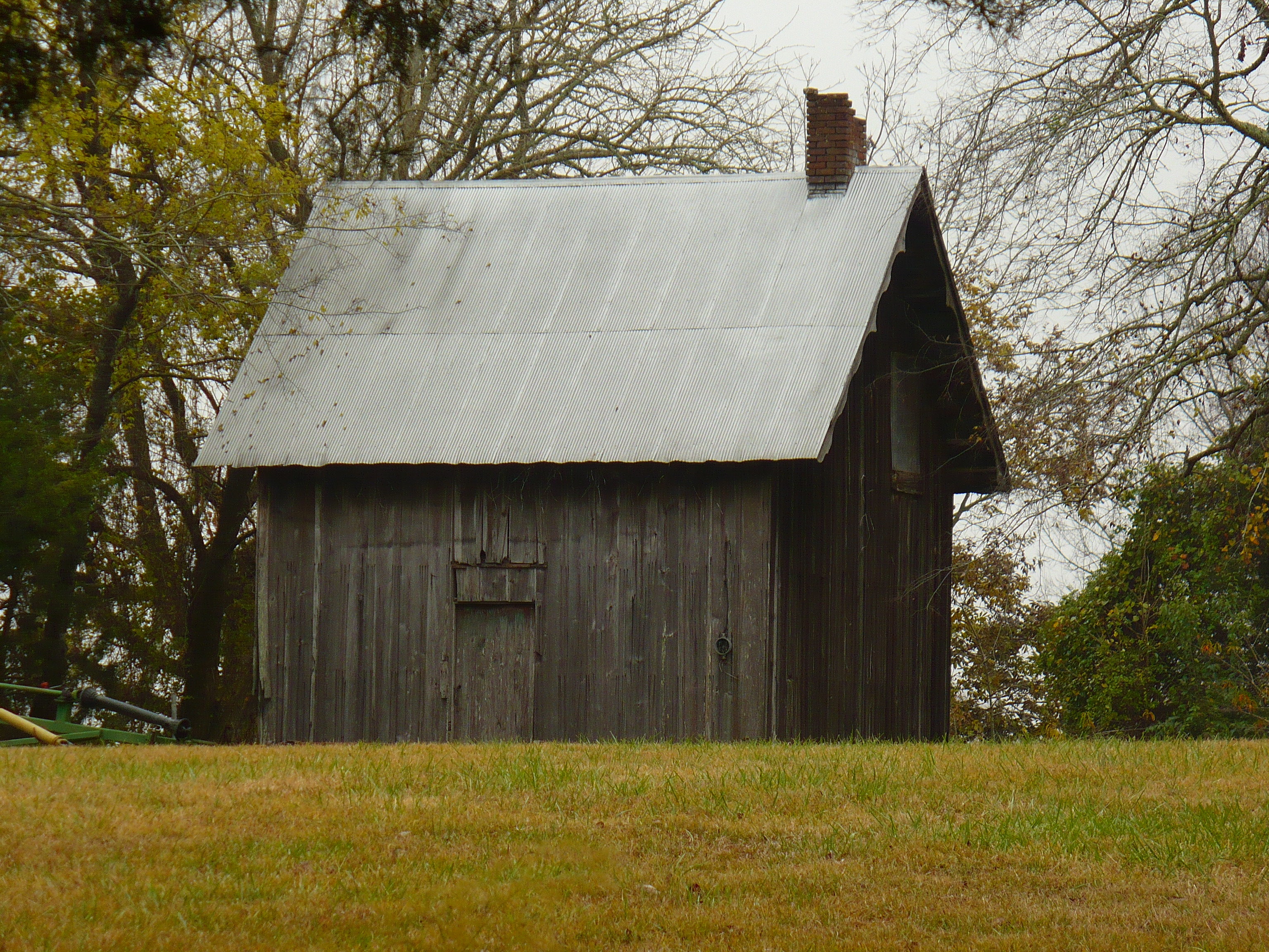 Faunsdale Plantation's Gothic Revival slave quarters near Faunsdale, Marengo County, Alabama.